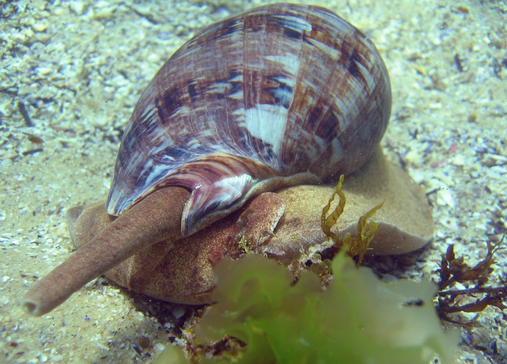 A Magnificent Volute (Cymbiola magnifica) on a substrate of broken shells. Shelly Beach, Manly, NSW